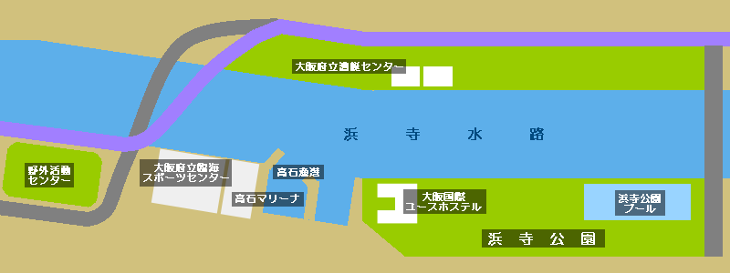 Hmadera Waterway